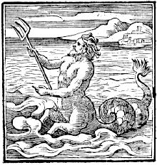 displayed in the Book of Emblems by Andrea Alciato (1531) as Emblema CLXXXIII (emblem # 183).